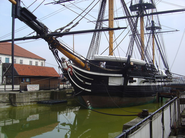 HMS Trincomalee(Hartlepool Historic Quay) HMS Trincomalee was built in India for the Royal Navy in 1817.